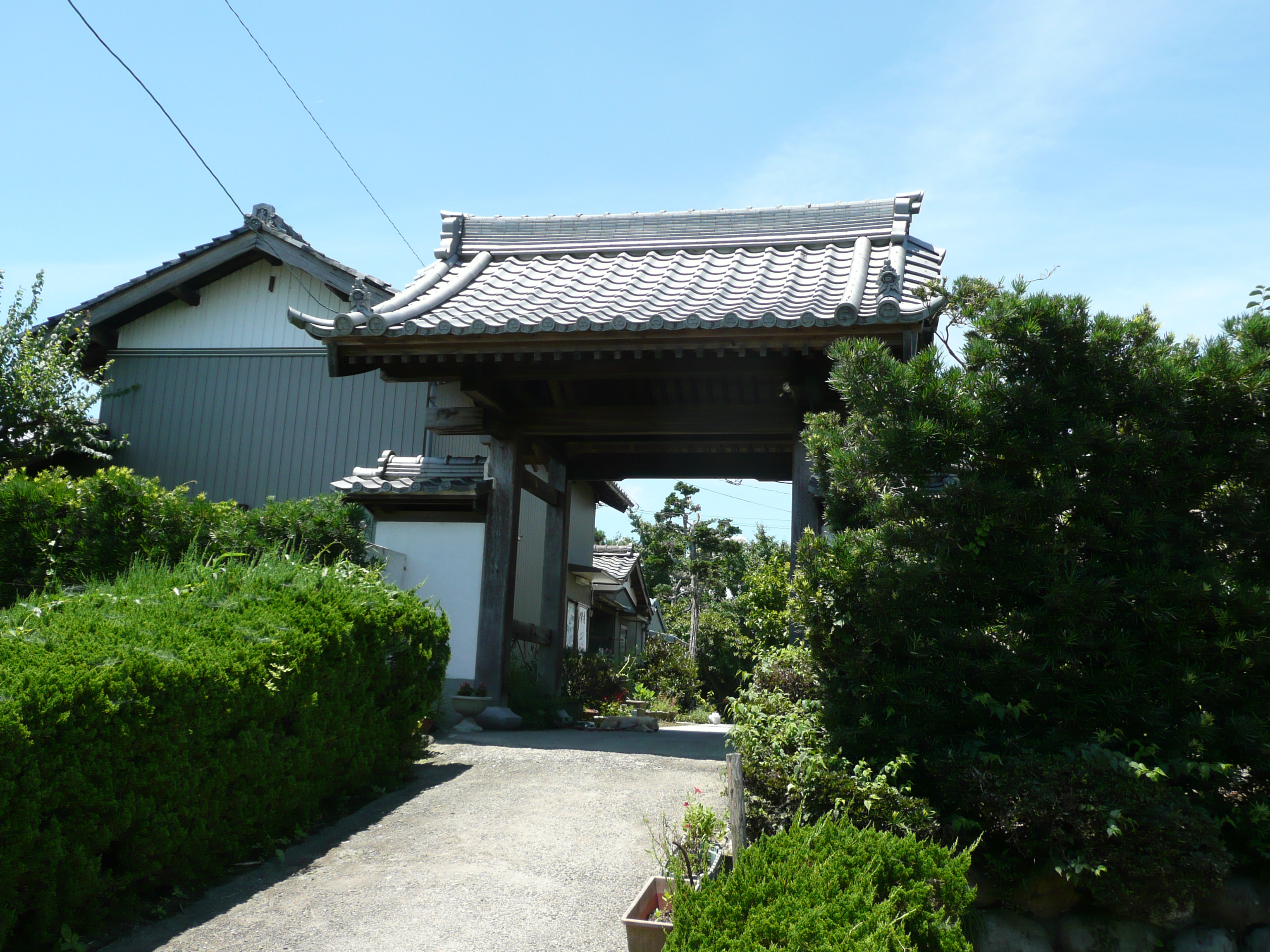 赤目城の移築門